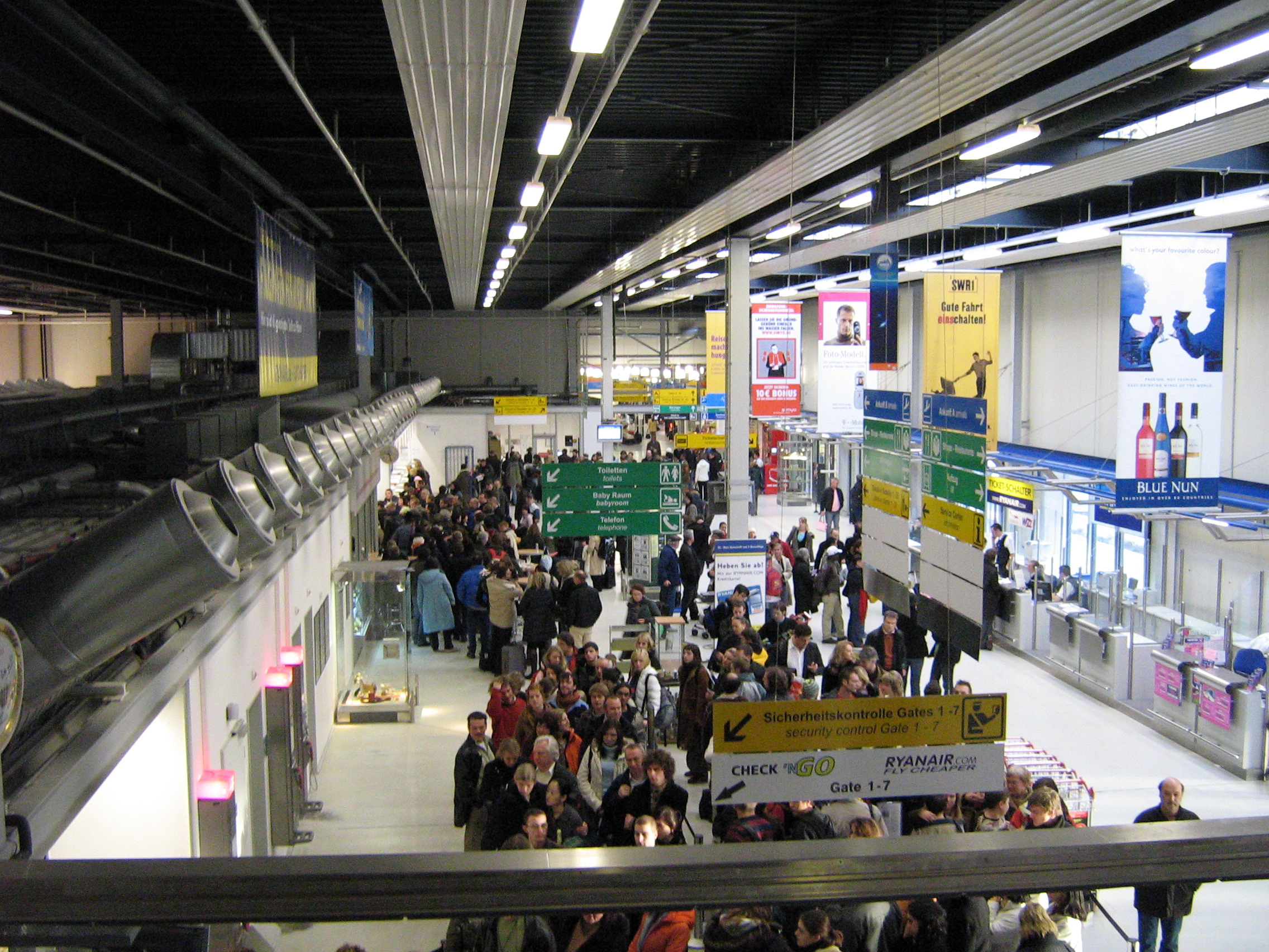 interior terminal1 at hahn airport